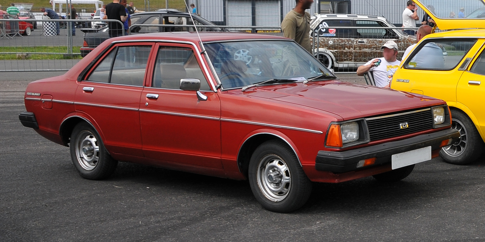 1981 Datsun Sunny 1400 (1397cc) at the Retro Show, Santa Pod July 2011